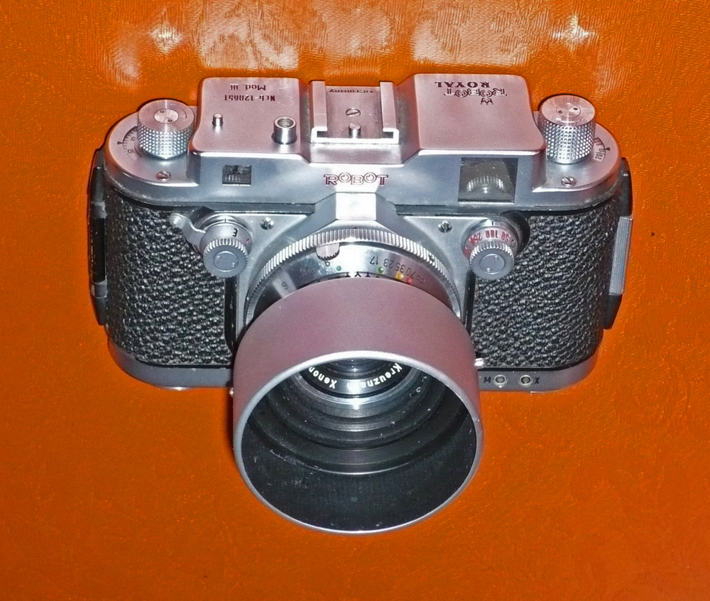 Robot Royal III with Robot lens hood